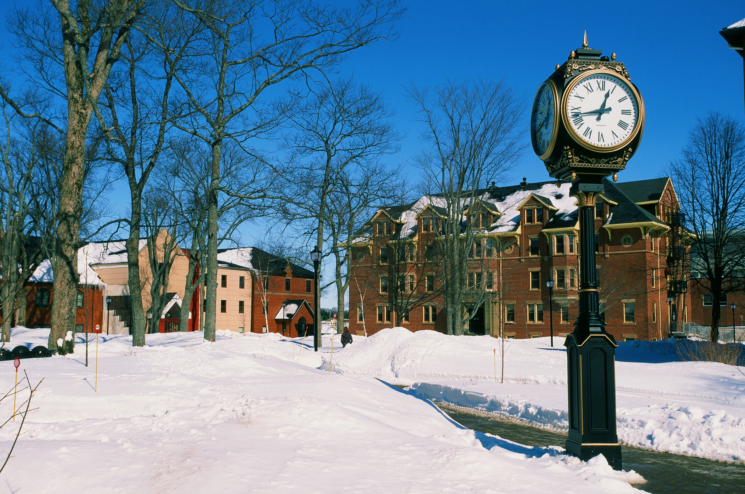 The new quad burried in snow last winter. Shot on Fuji Velvia.